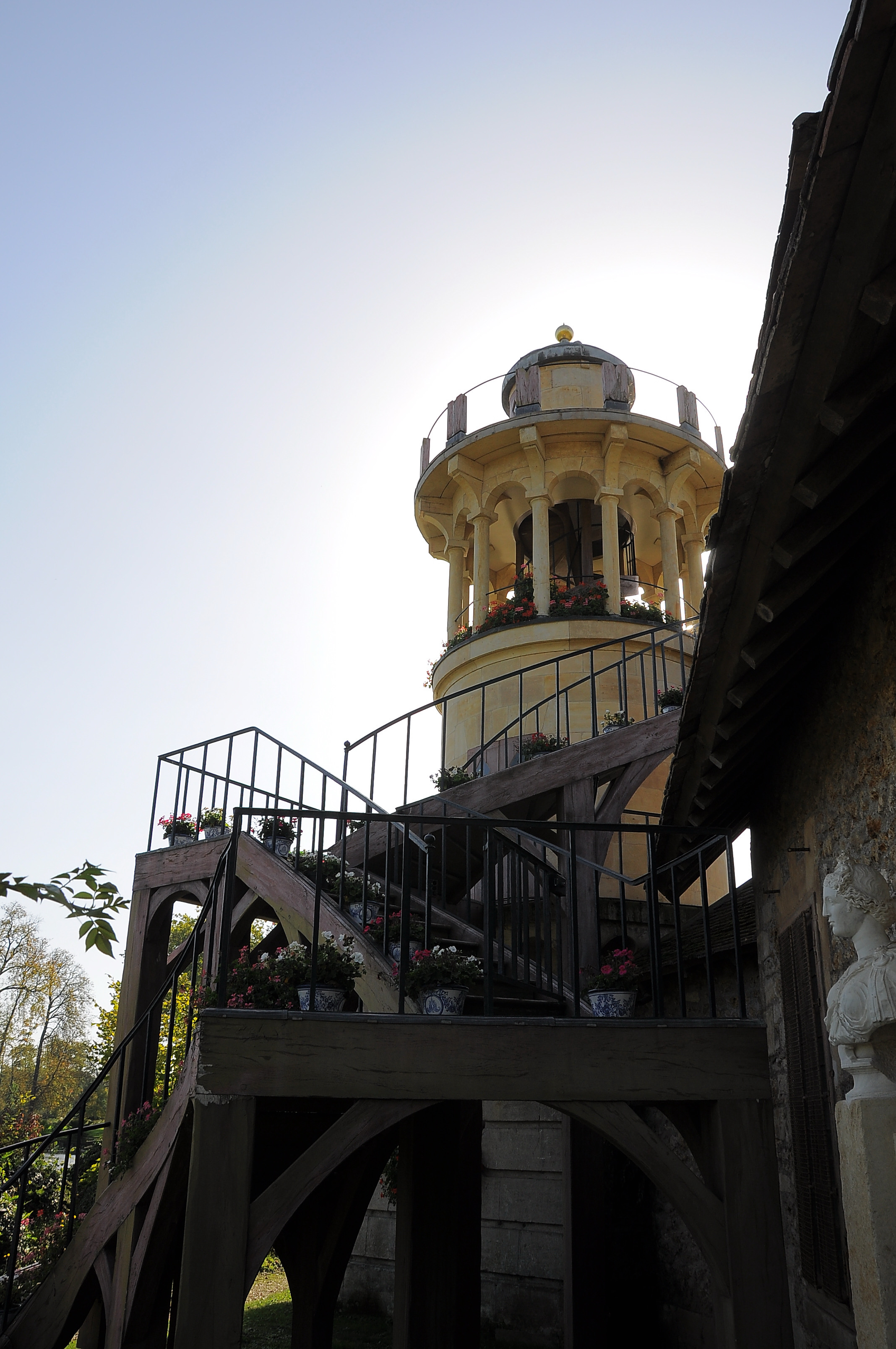 Marlborough tower in the hameau de la Reine, the Queen's Hamelet in Palace of Versailles in the department of Yvelines, France.